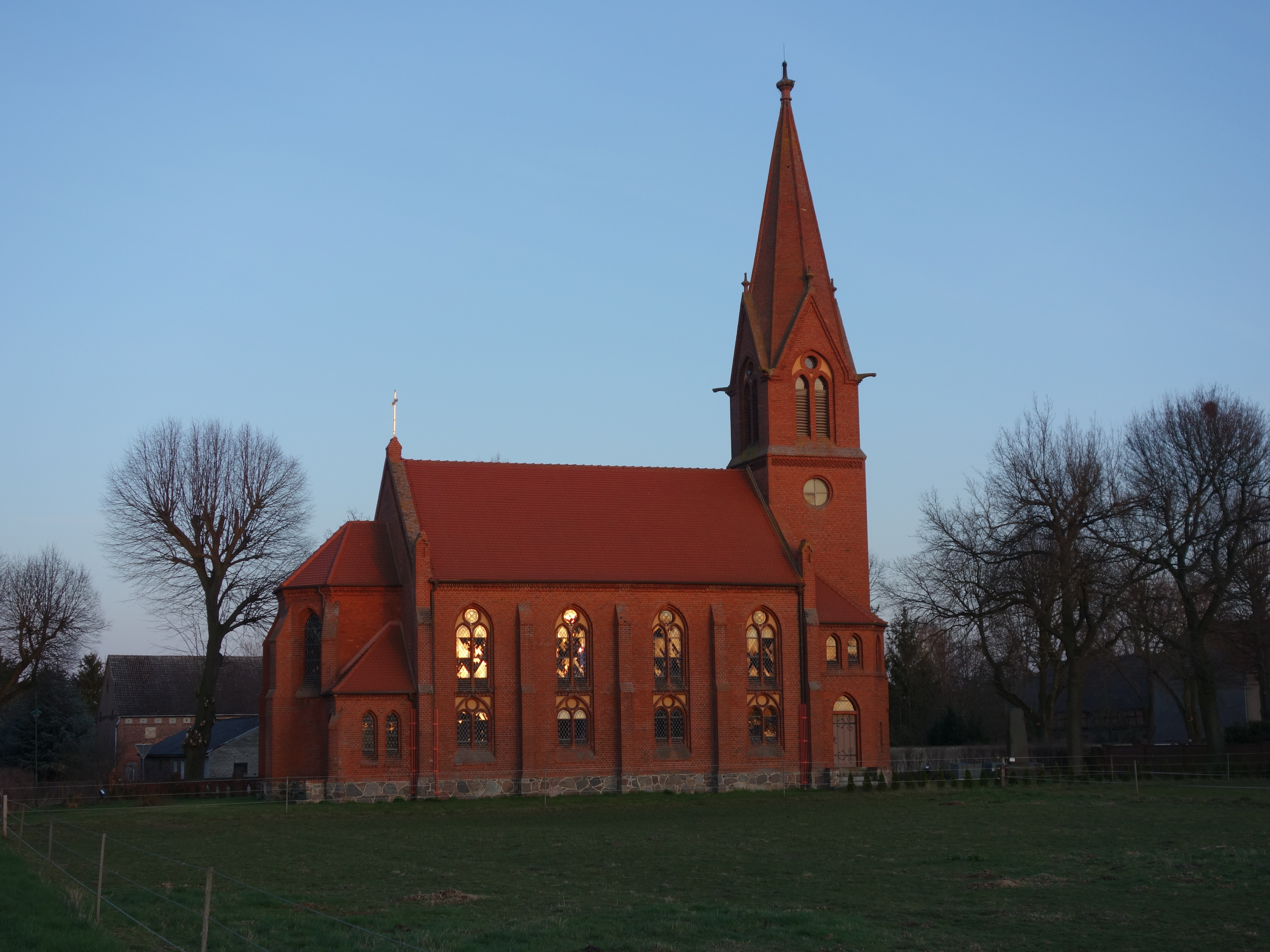 Western view of church in Bückwitz, Wusterhausen municipality, Ostprignitz-Ruppin district, Brandenburg state, Germany